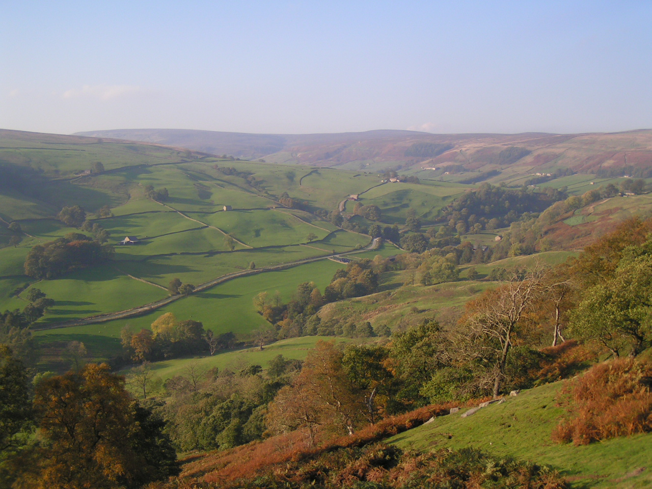 Upper Nidderdale, looking up-dale